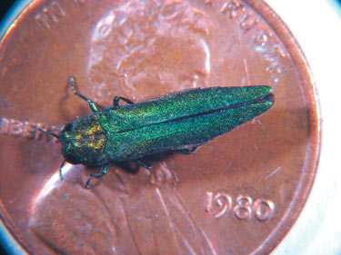 An adult Emerald Ash Borer on a penny.